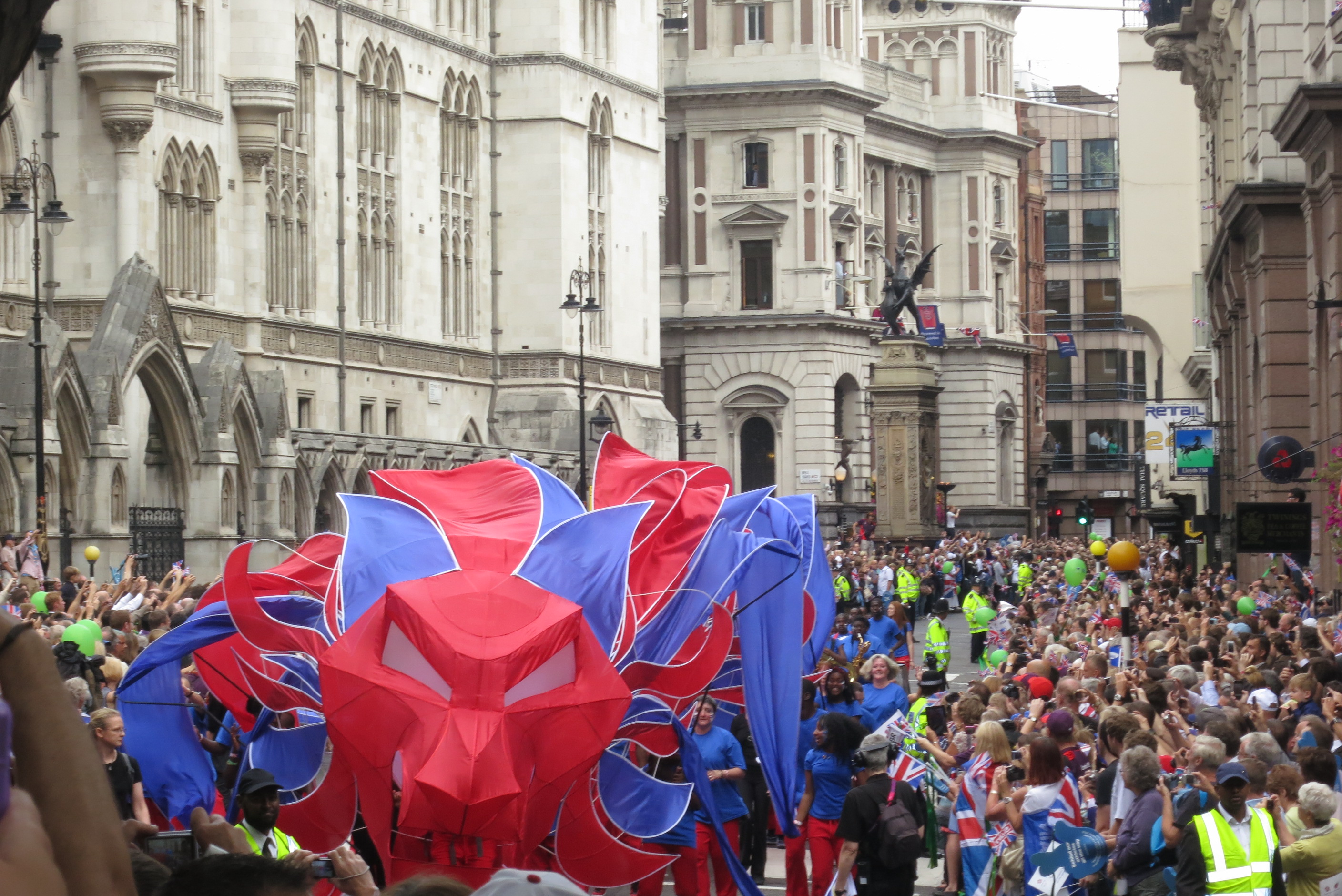 Close up of one of the lions in the Our Greatest Team Parade, London, taken next to St Clements Danes Church. Please note: photo actually taken at 14:19 not 12:19.